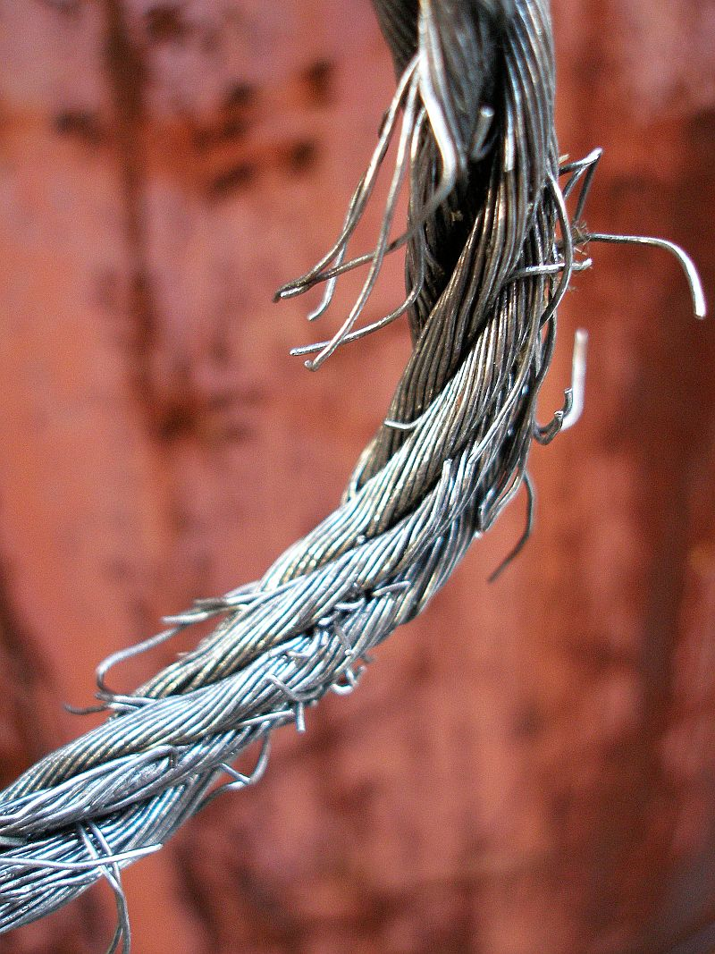 A fraying wire rope.